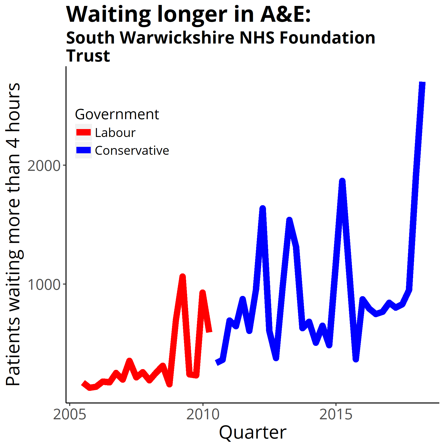 Four-hour target in the emergency department quarterly figures from NHS England Data from